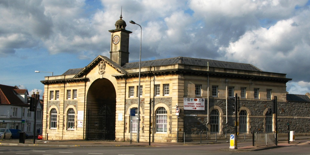 The council motor vehicle depot on Bath Road, Brislington, Bristol. The grand entrance dates back to its construction in the late nineteenth century as a depot for the Bristol Tramways and Carriage Company. From 1908 it was also used to build the company's motor buses.